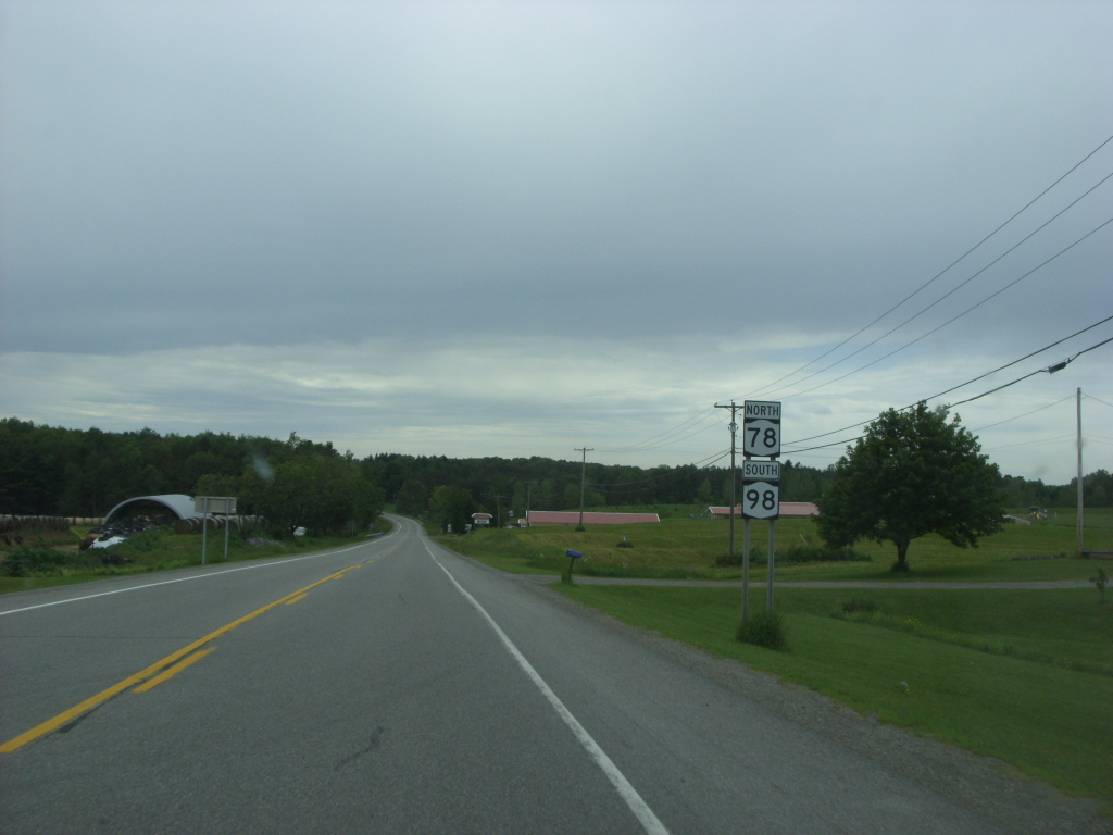 New York State Route 78 northbound and New York State Route 98 southbound on their wrong-way concurrency through the town of Java.